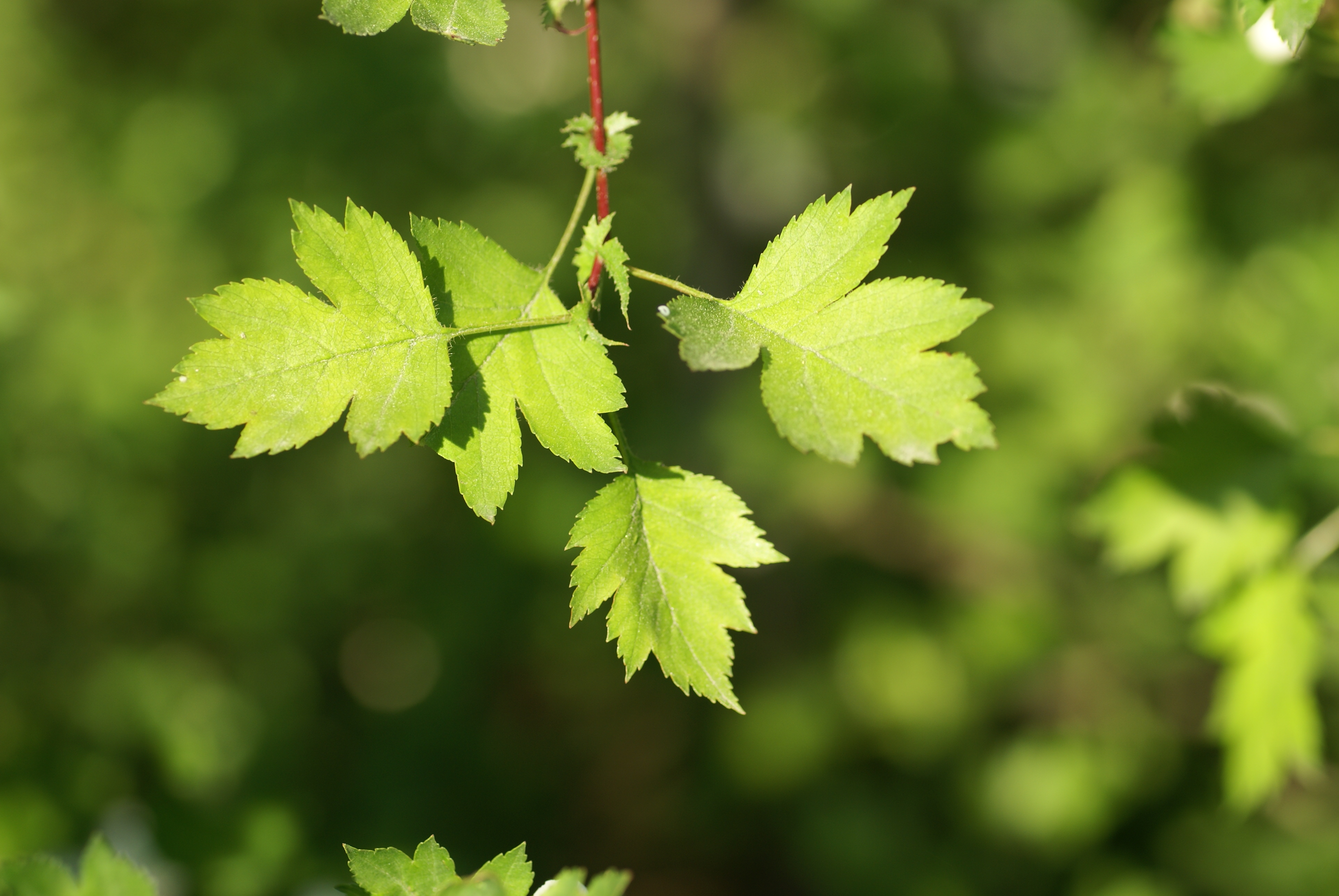 Plant species Crataegus rhipidophylla